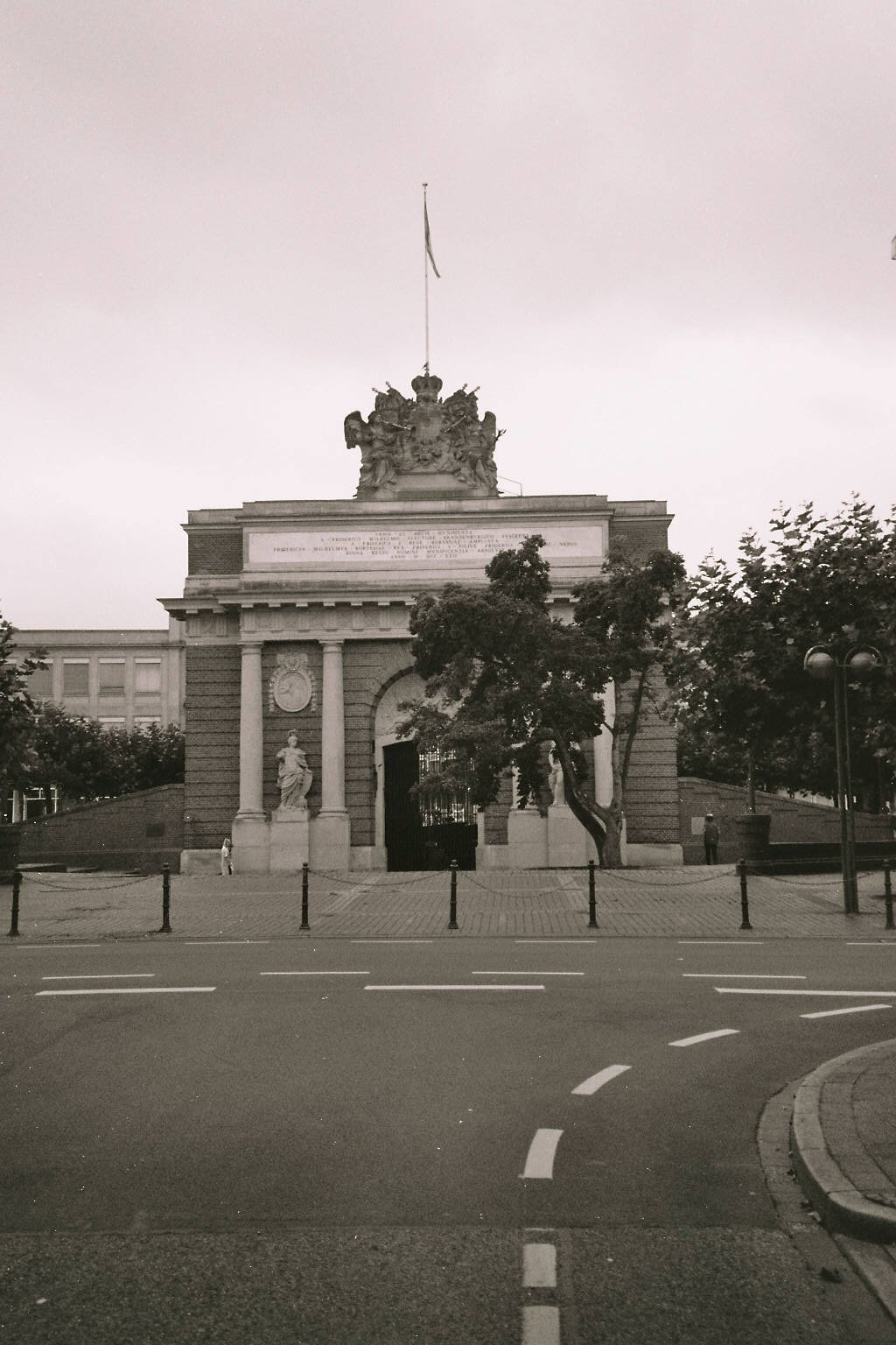 The "Berliner Tor" in Wesel, Germany